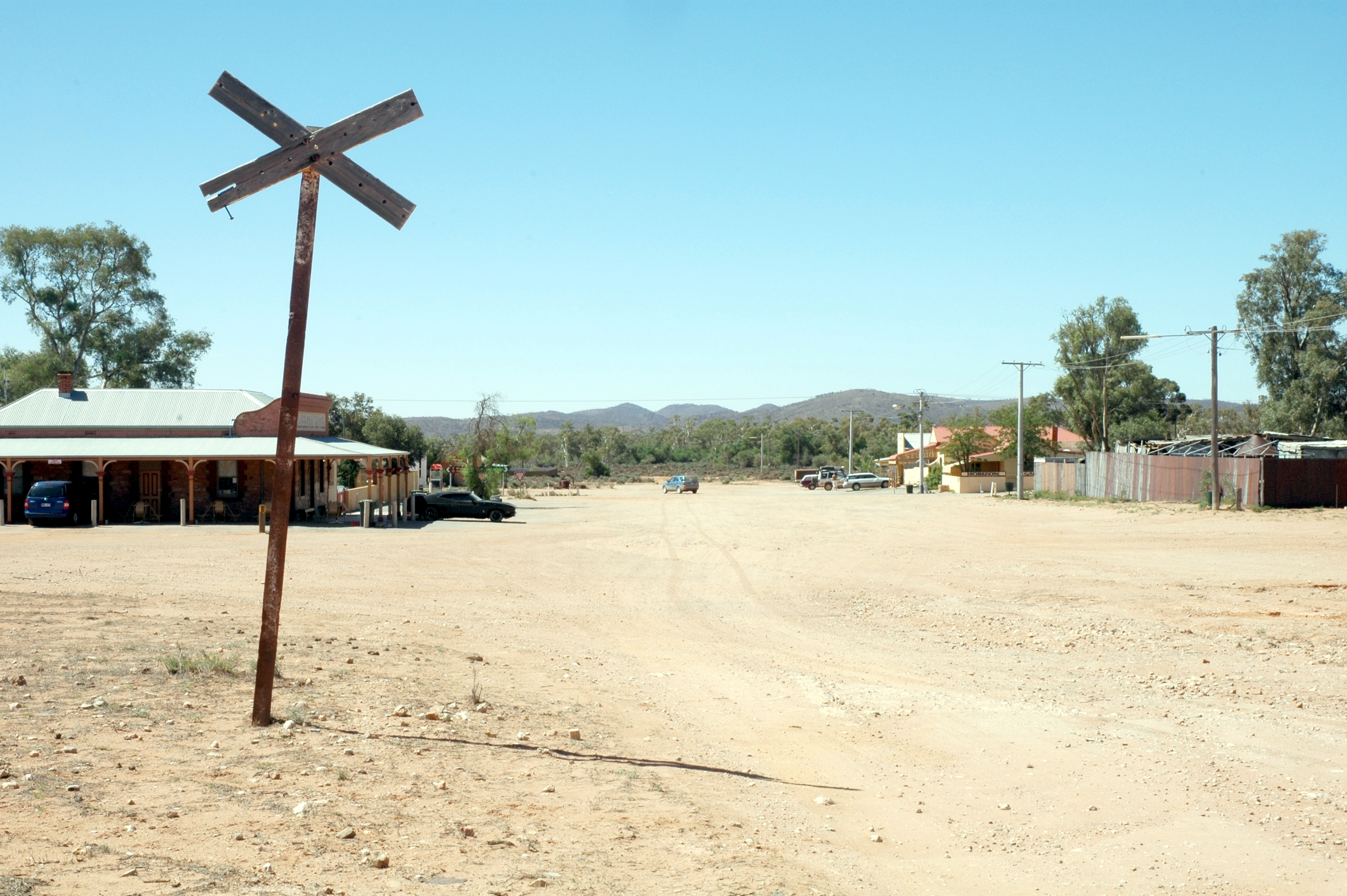 Site of level crossing for Silverton Tramway in Silverton New South Wales Australia